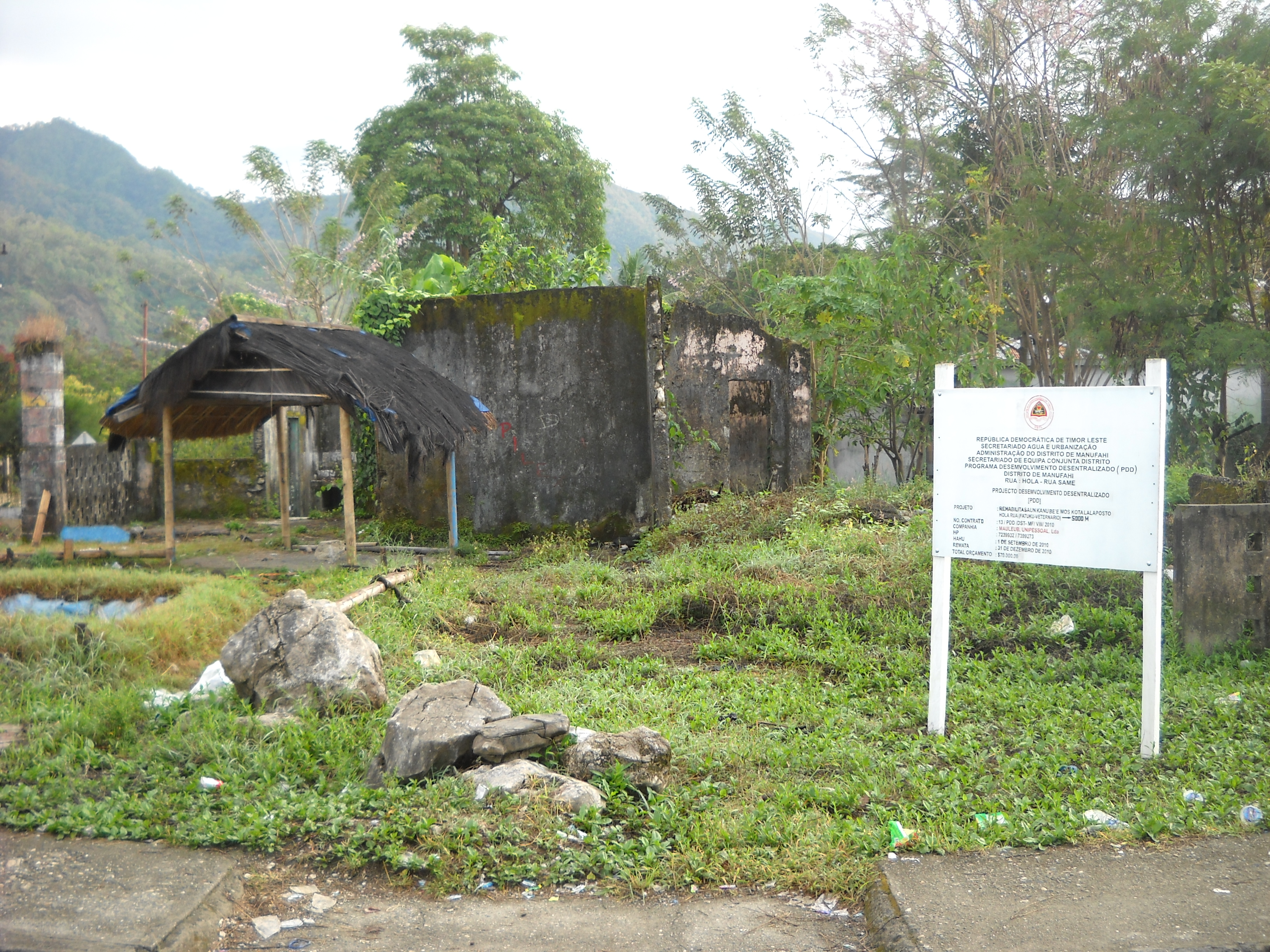 Detail of more buildings that were destroyed by the Indonesian Army in Holarua, SAME, East Timor.